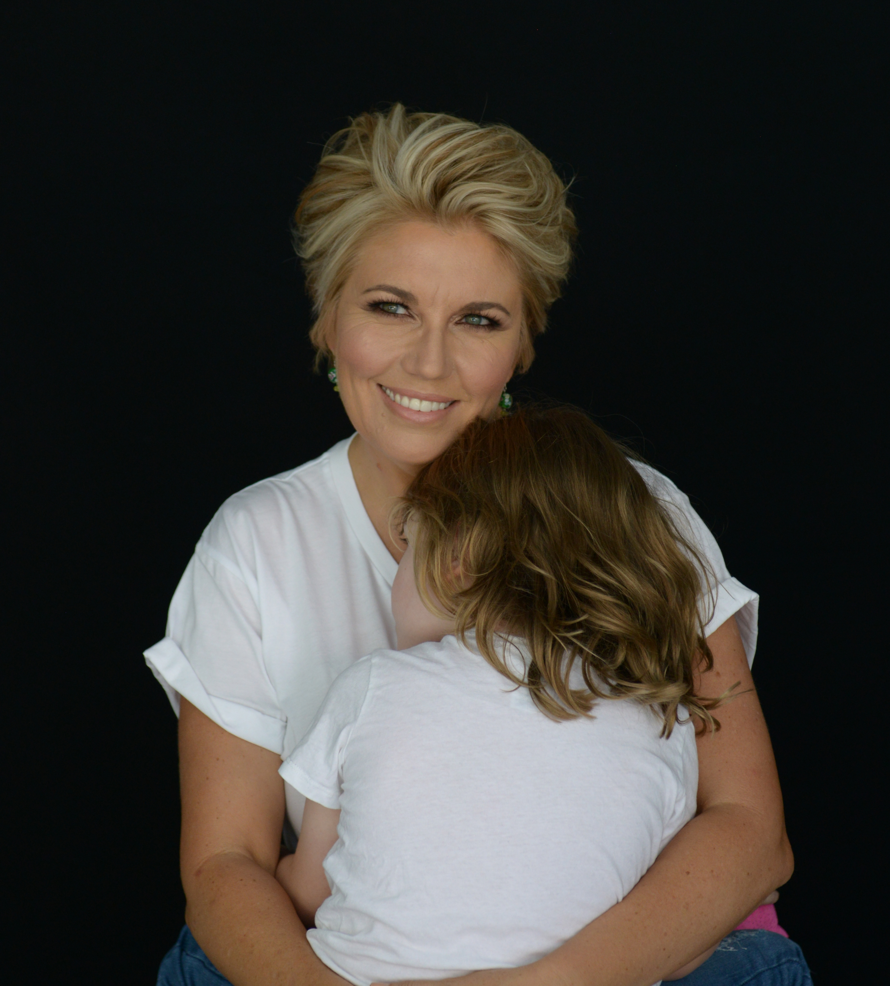 This photo was taken in the early part of 2018 as I was standing in on a photoshoot for a friend.